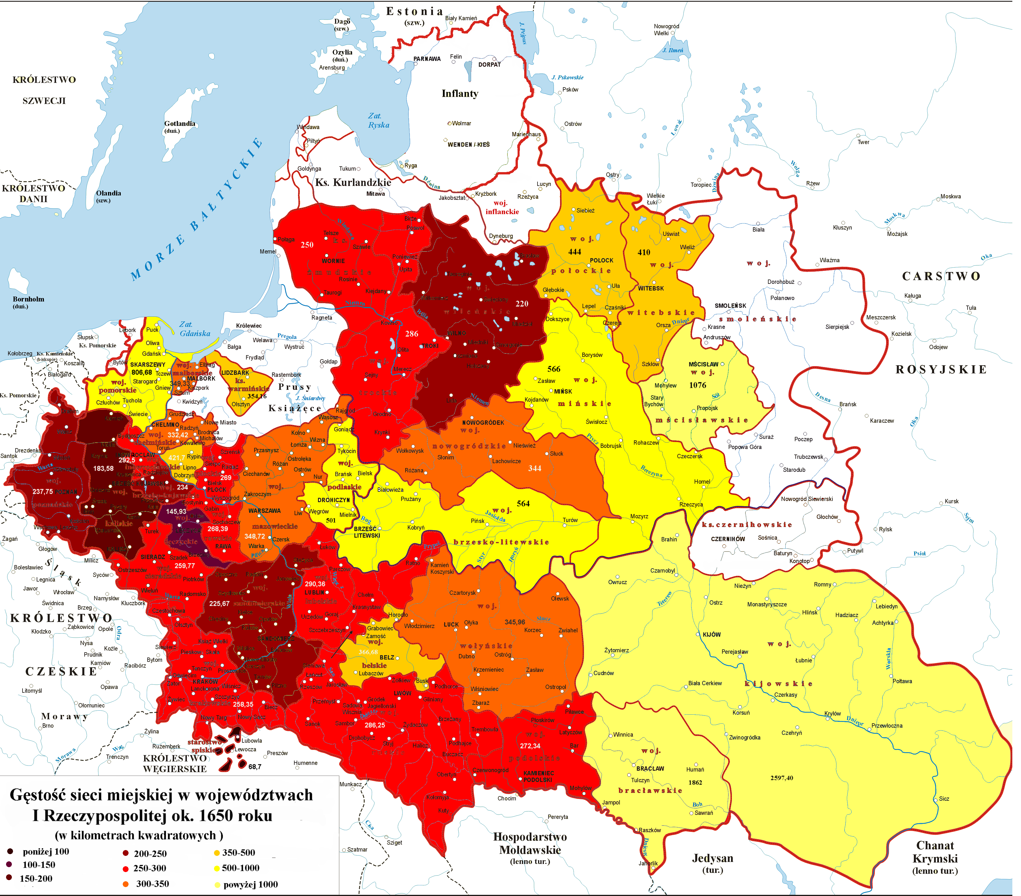 The density of the urban network per voivodeship of Polish–Lithuanian Commonwealth ca. 1650